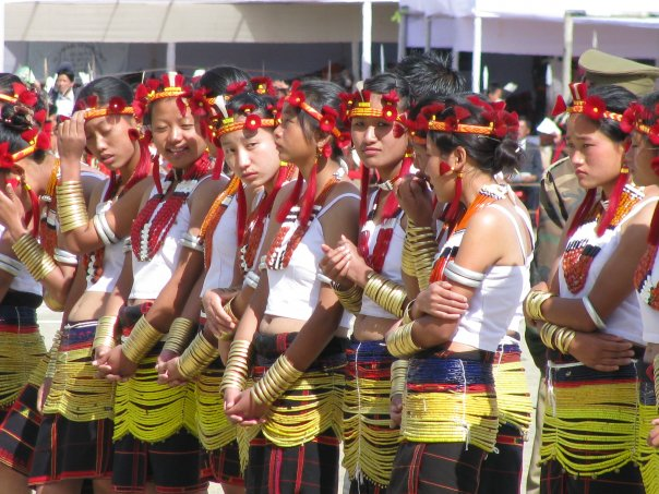 Sümi women in their colourful traditional attire.